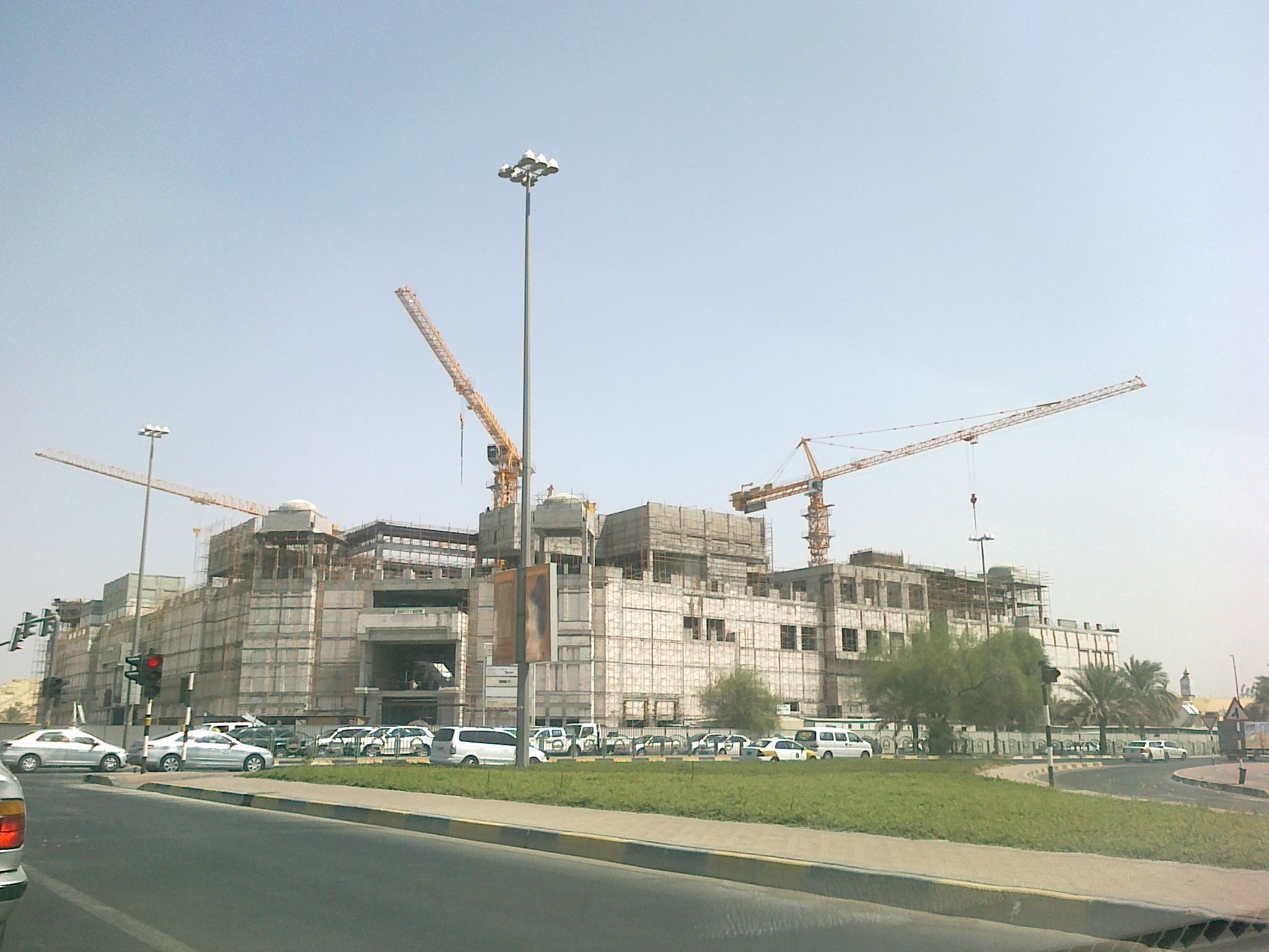 The Mall - Al Ain By Fadi Fayyadh Al Toubeh